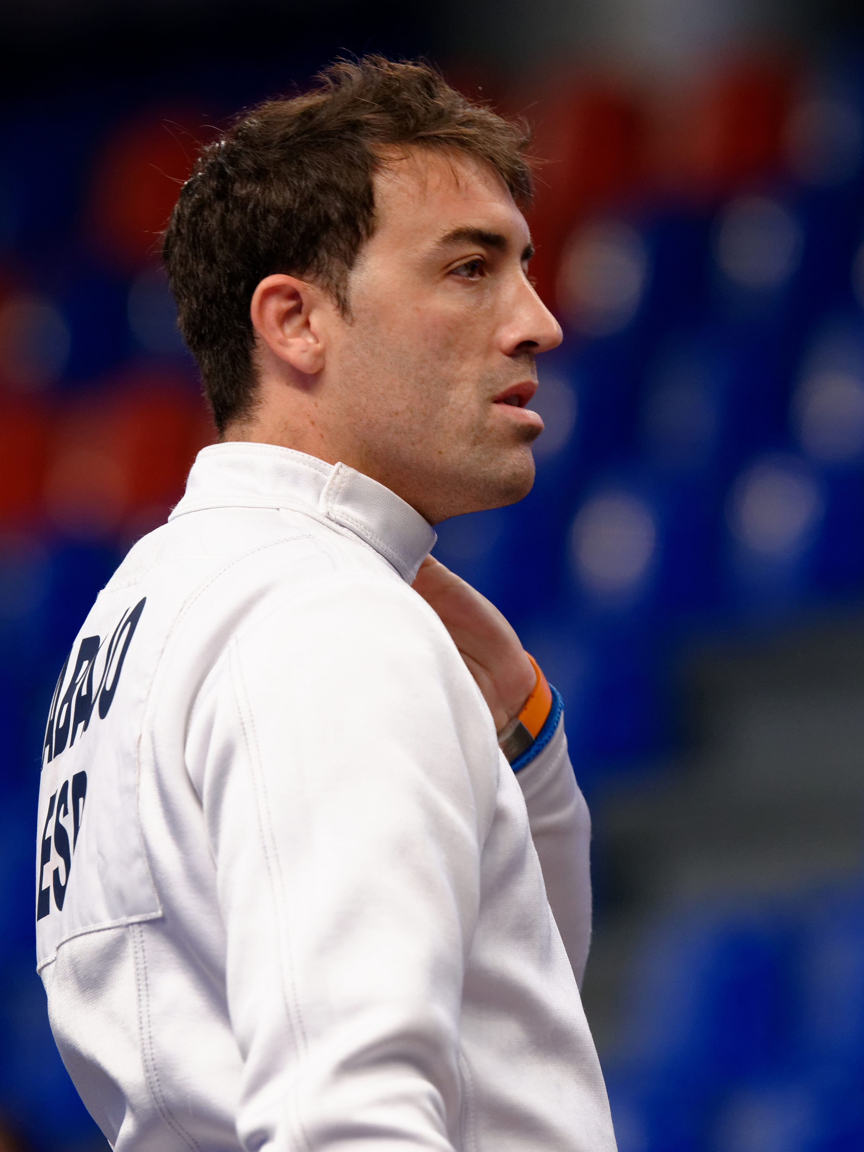 Spain's José Luis Abajo during his T64 match against Enrico Garozzo of Italy at the 2014 Challenge RFF-Trophée Monal, a men's épée World Cup event, on 3 May 2014.